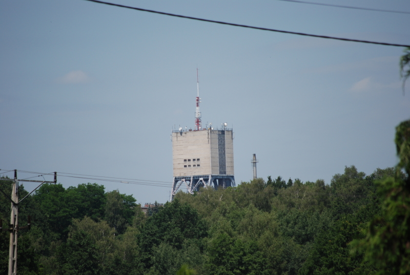 Tower (Shaft mining) "Jedłownik" in Wodzisław